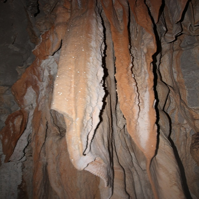 CuevasCandelaria6